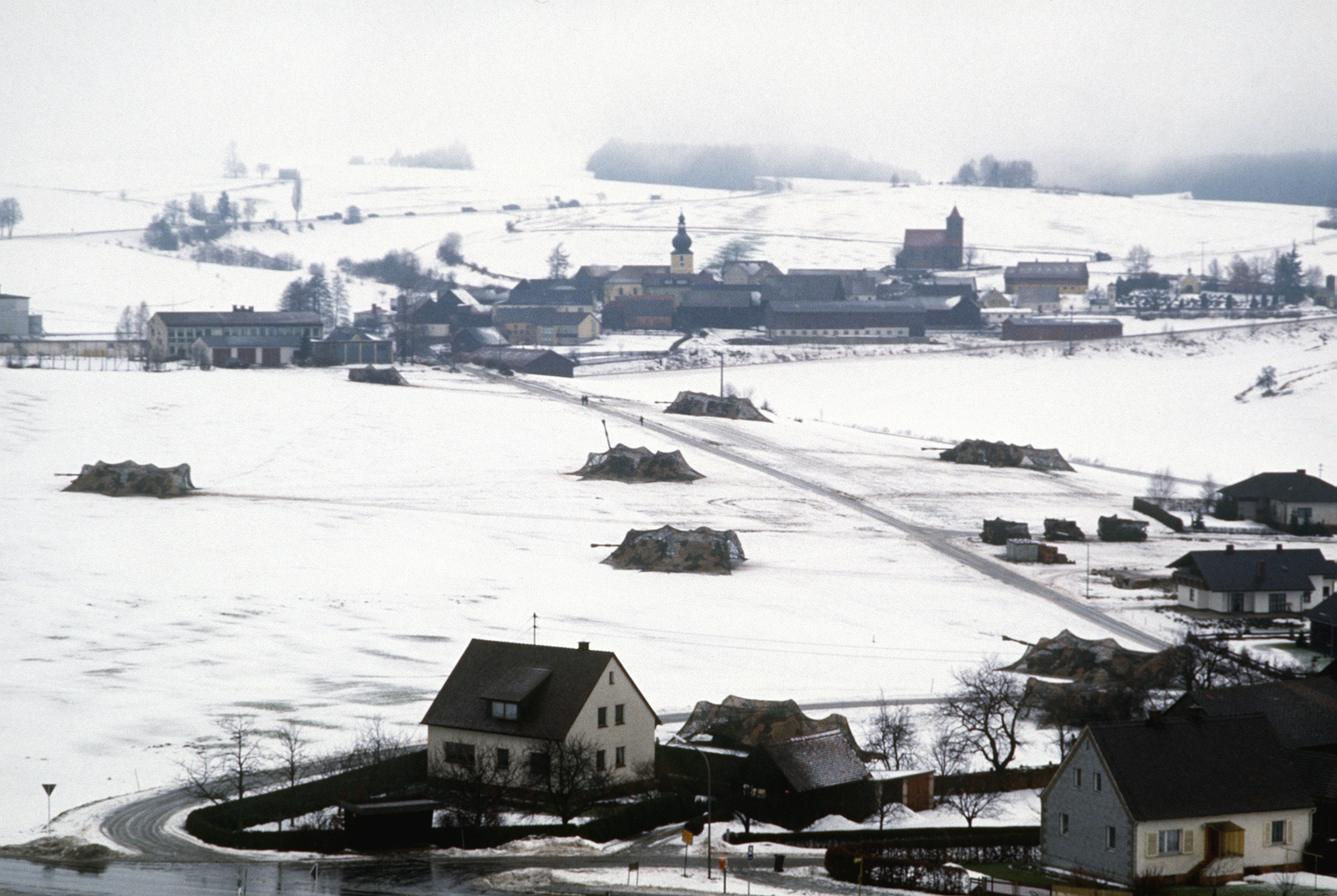 An aerial view of a heavy artillery unit positioned outside the town during Exercise REFORGER (Return of Forces to Germany) between Döltsch and Kirchendemenreuth, Bavaria, West Germany.